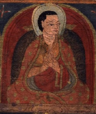 Gonpawa (1016-1083), Tibetan Buddhist teacher of eleventh century